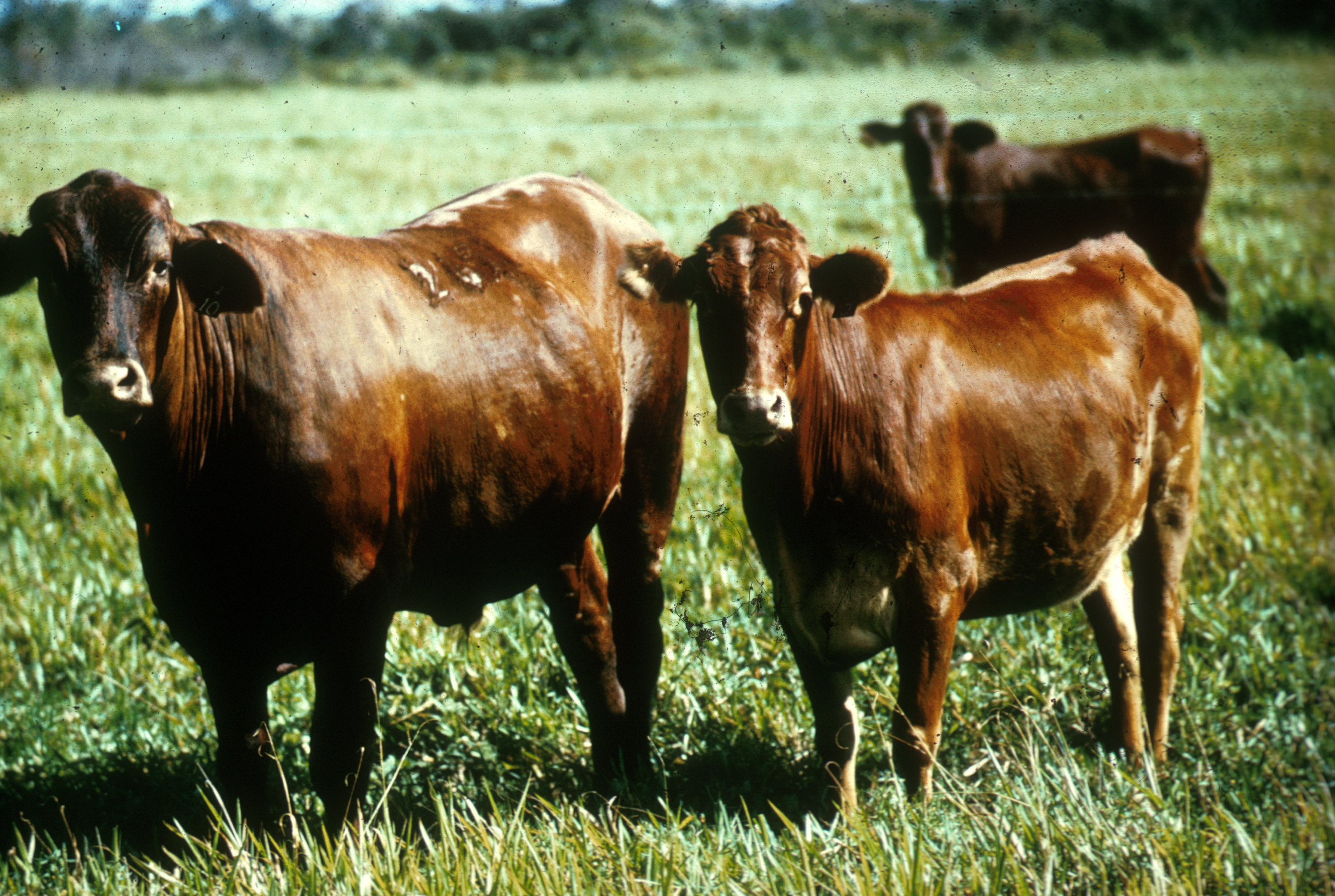 Belmont Red cattle.